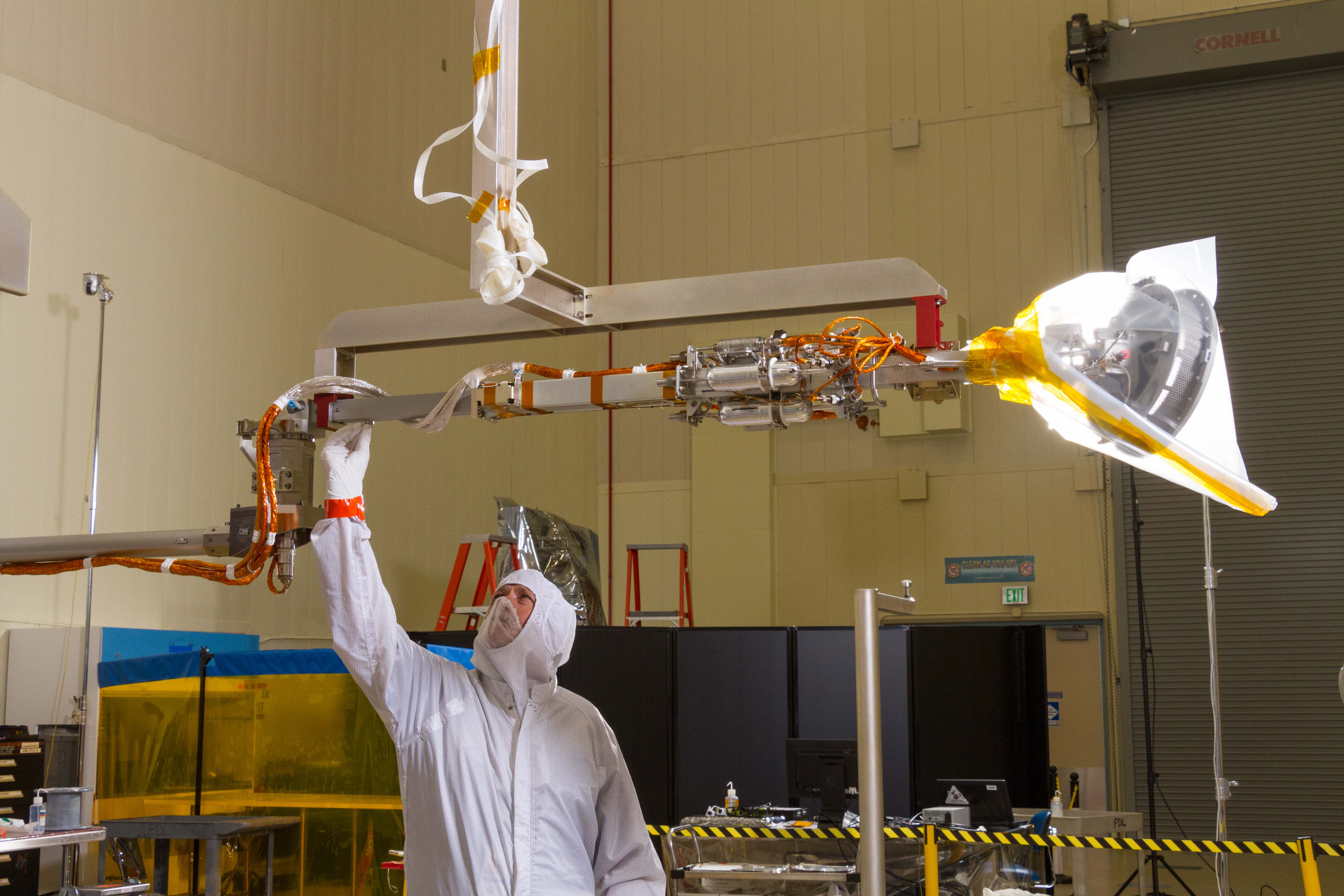 OSIRIS-REx spacecraft : The Touch-and-Go Sample Arm Mechanism is tested in the Lockheed Martin facility. The TAGSAM arm will be responsible for collecting a sample from Bennu’s surface.